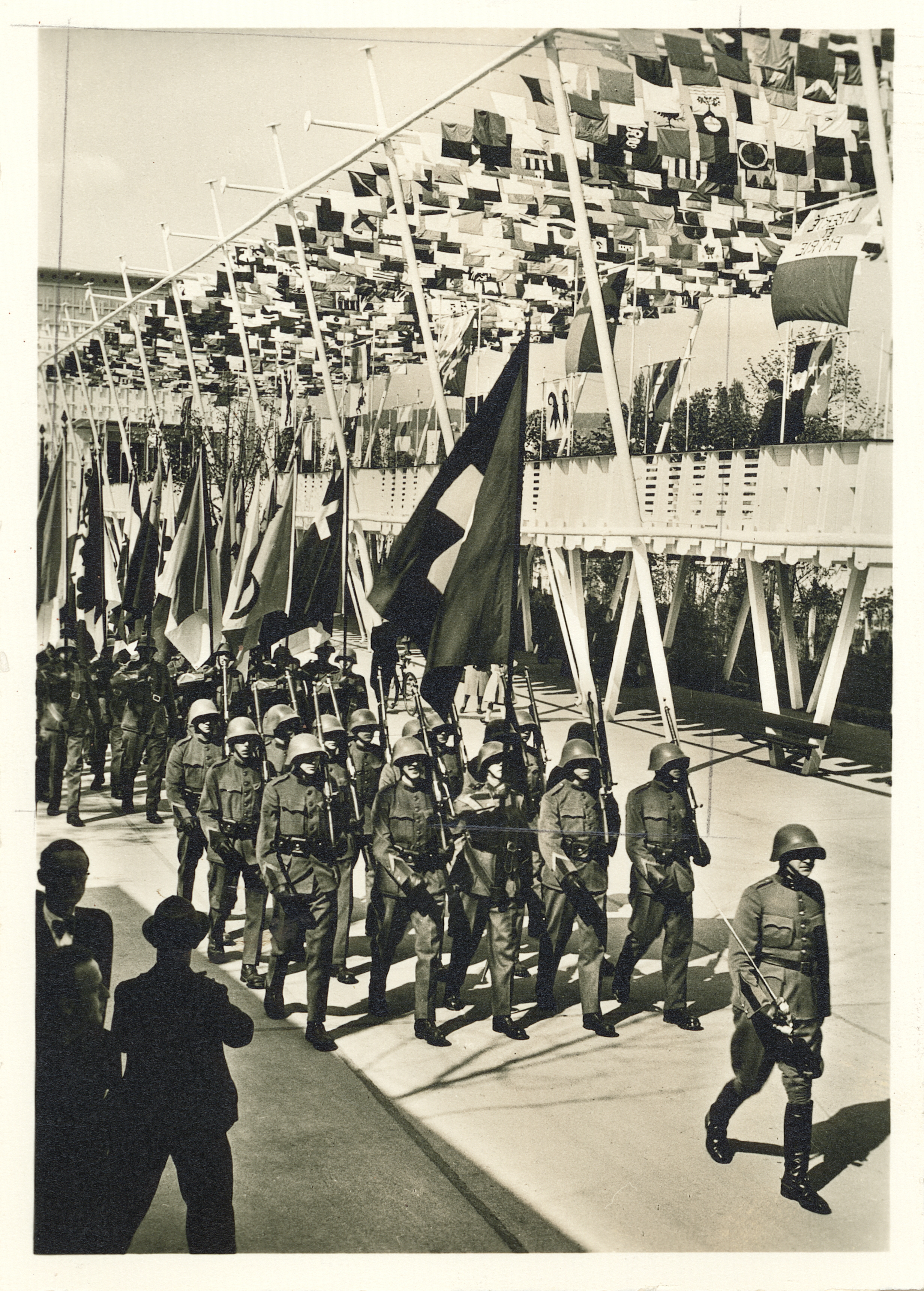 Schweizerische Landesausstellung 1939 in Zürich, Landi/Einweihung (Festzug mit Architekten). Einzug in die Landi Höhenstrasse: 3000 Gemeindefahnen. Schweiz